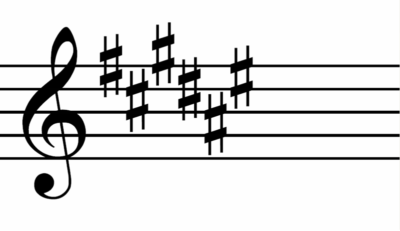 F sharp major/D sharp minor